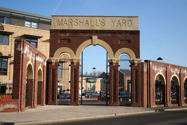 Entrance to Marshall's Yard shopping complex